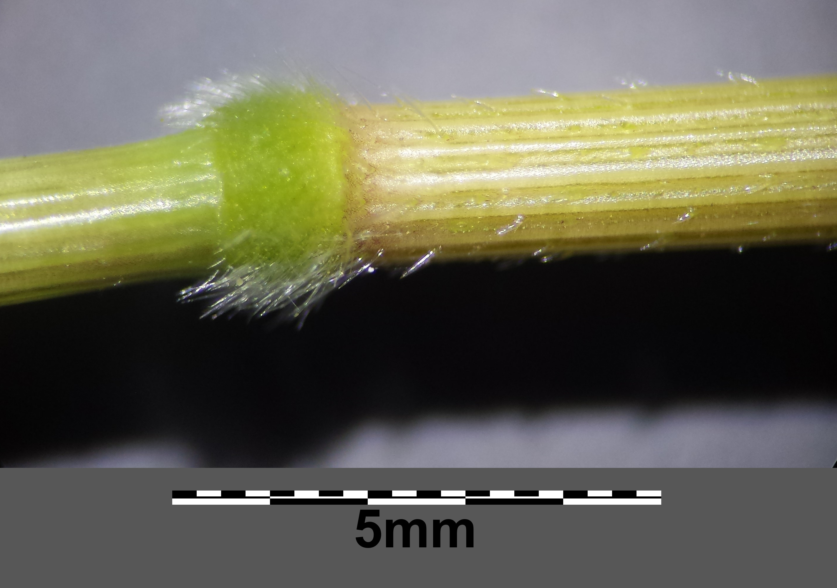 Stipe with bearded node Taxonym: Leersia oryzoides ss Fischer et al. EfÖLS 2008 ISBN 978-3-85474-187-9 Location: Marchfeldkanal near Steinamangergasse, Wien-Floridsdorf - ca. 160 m a.s.l. Habitat: shore